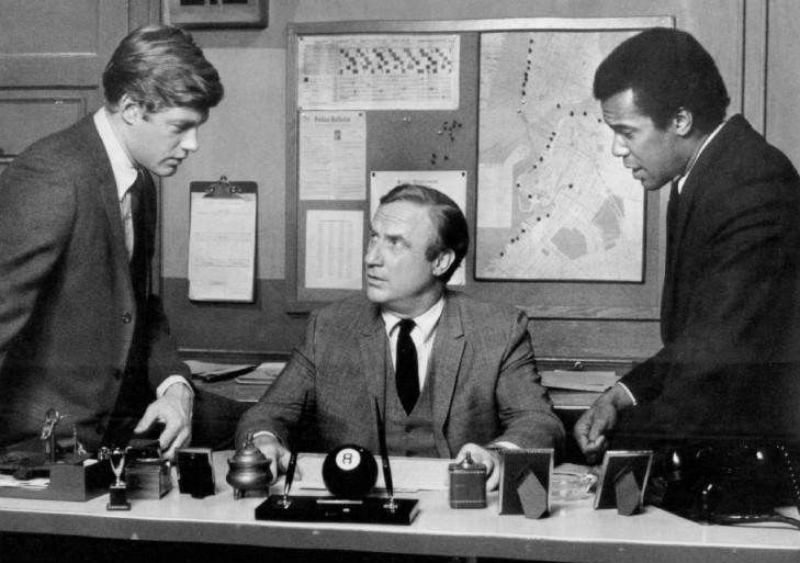 Photo from the television program N.Y.P.D.". From left: Frank Converse, Jack Warden and Robert Hooks.